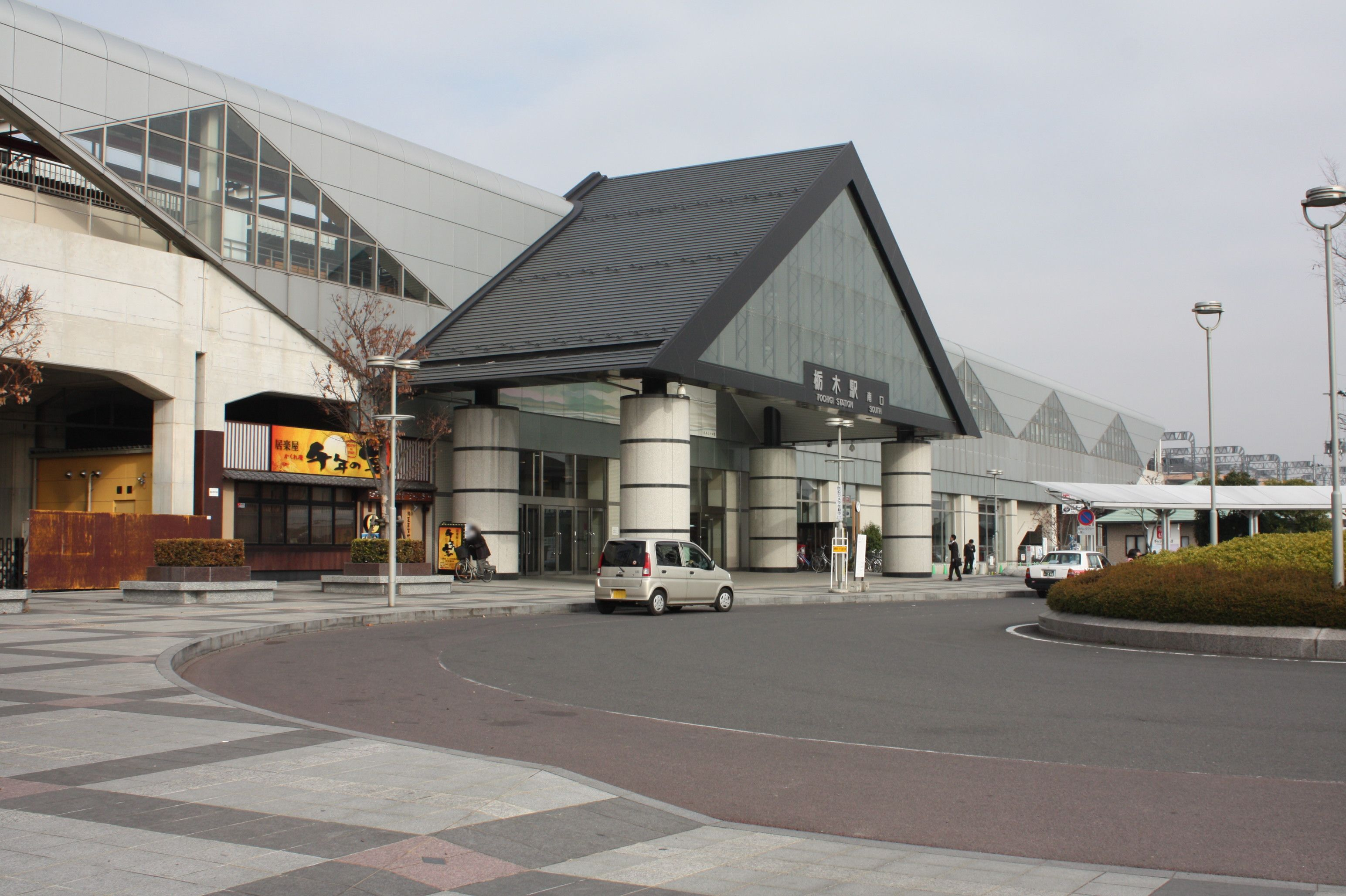 Tochigi sta South Entrance